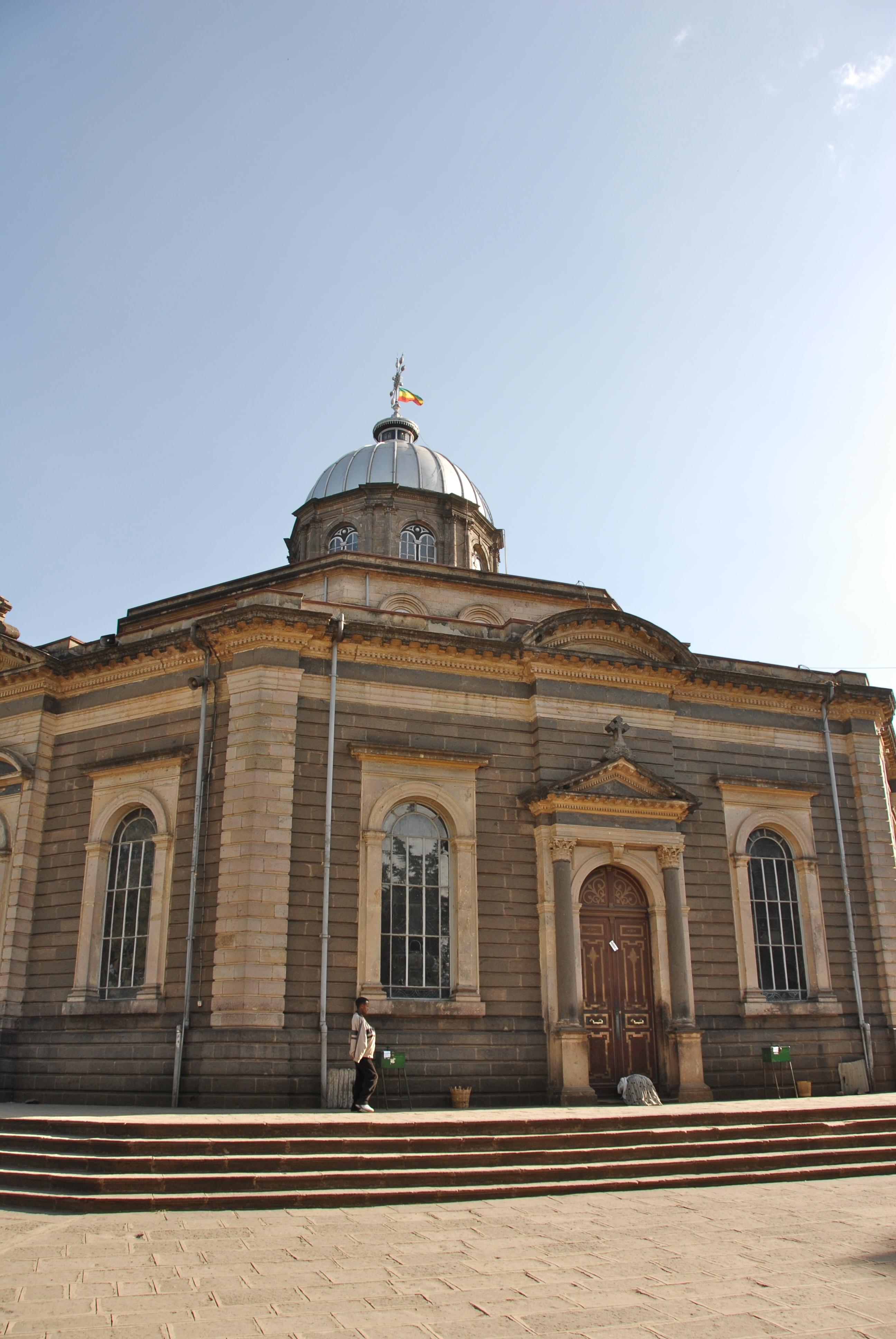 St. George's Cathedral